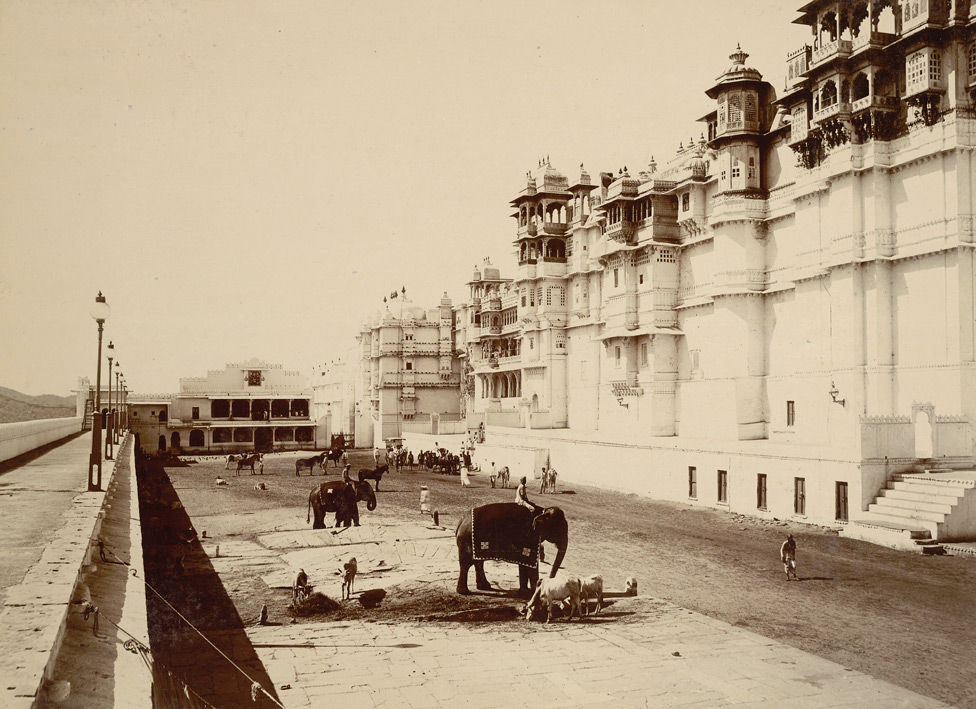 Palace, Udaipur